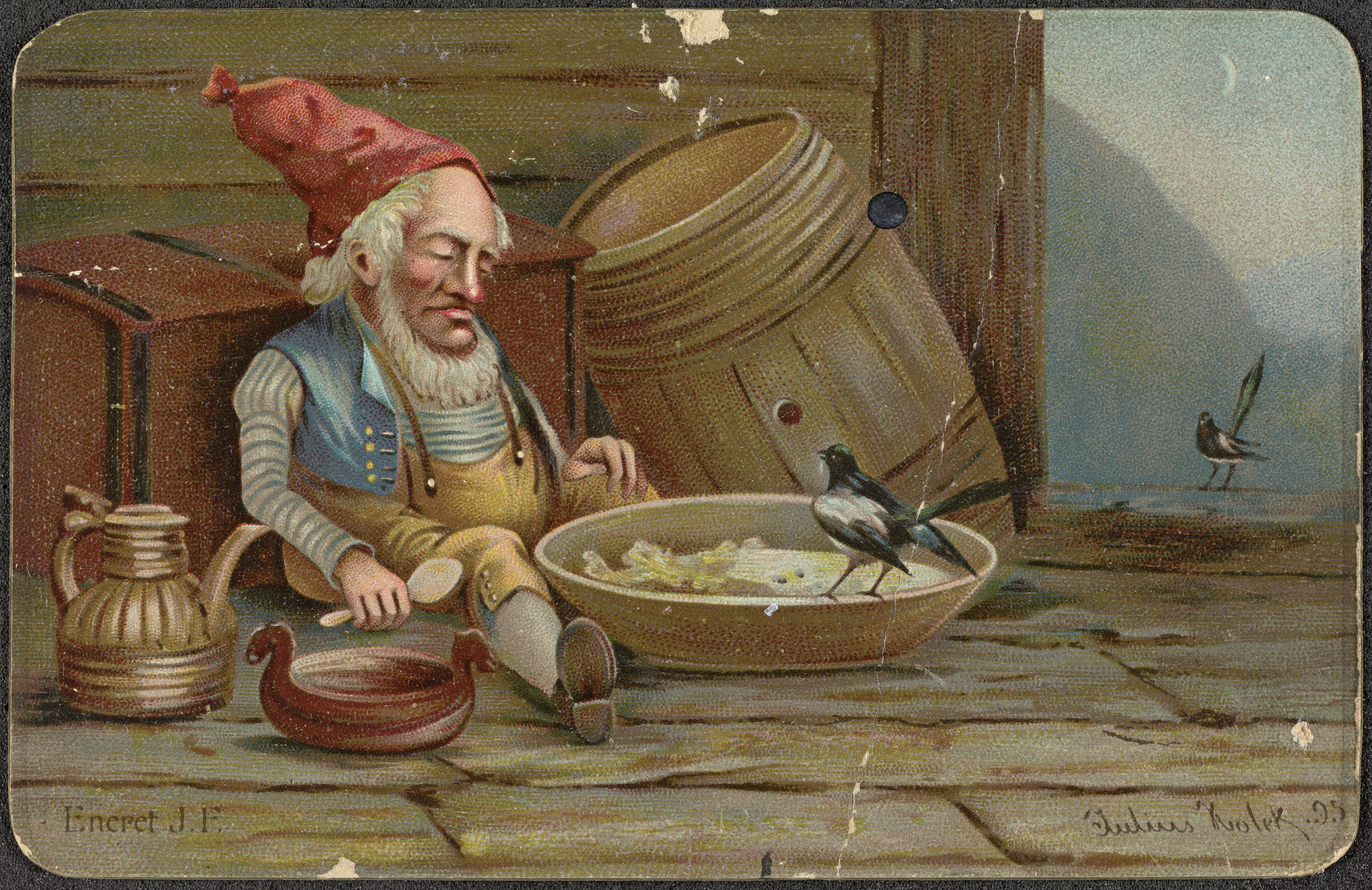 Beskrivelse / Description: overrekkelseskort / kartongkorg Dato / Date: 1895 Kunstner / Artist: Julius Holck (1845-1911) Utgiver / Publisher: J. F. Digital kopi av original / Digital copy of original: kartongkort, farge Eier / Owner Institution: Nasjonalbiblioteket / National Library of Norway Lenke / Link: Bildesignatur / Image Number: blds_07485